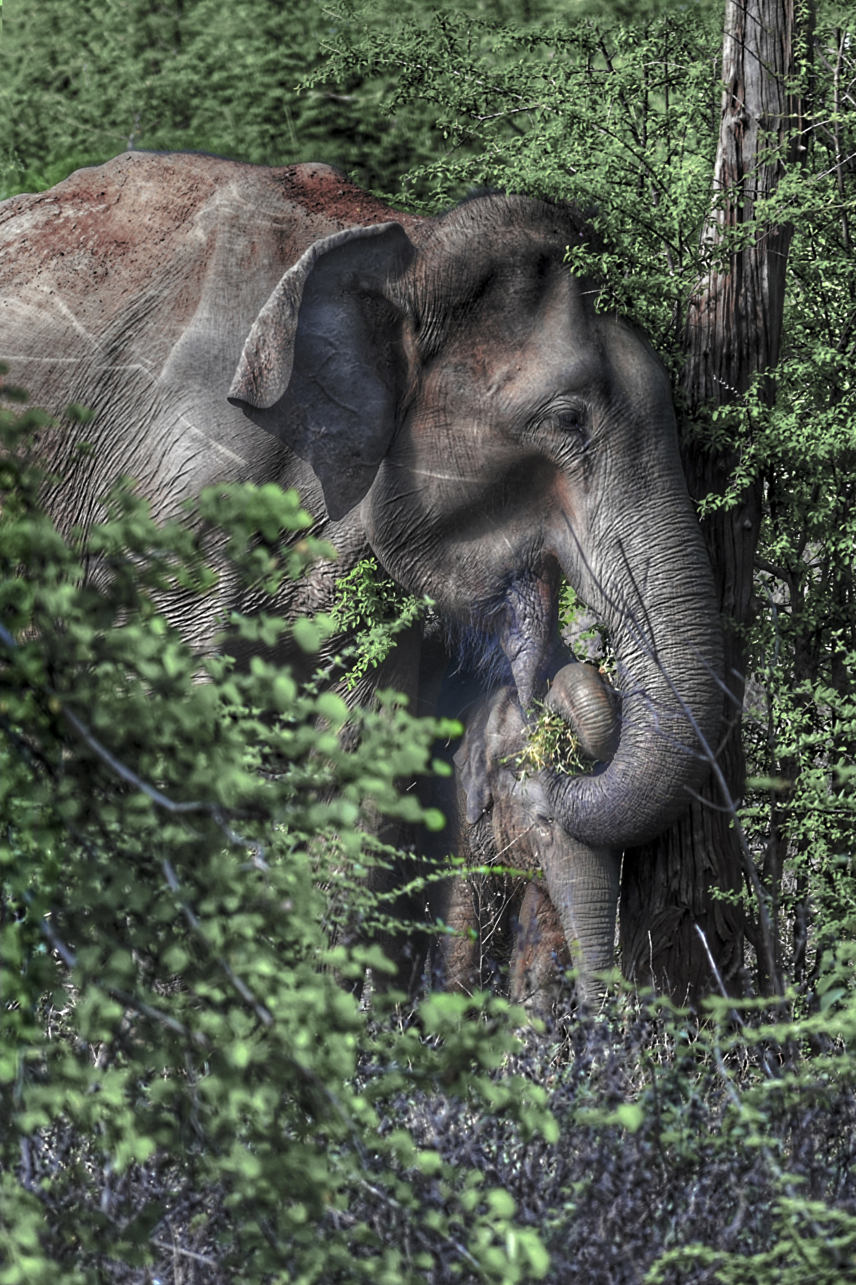 Udawalawa is a national park in sri Lanka. Its famous for sri lankan elephants. The photo was taken near the Udawalawa tank